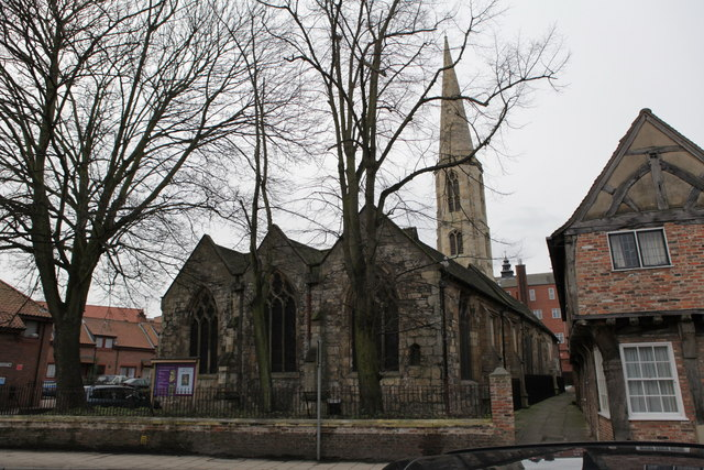 All Saints North Street for more details about the Church